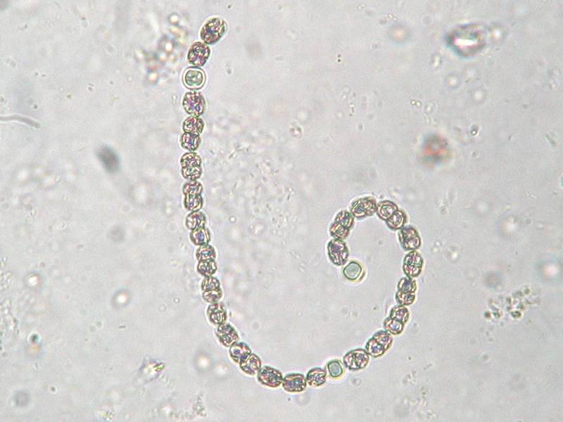 This work is free and may be used by anyone for any purpose. If you wish to use this content, you do not need to request permission as long as you follow any licensing requirements mentioned on this page.